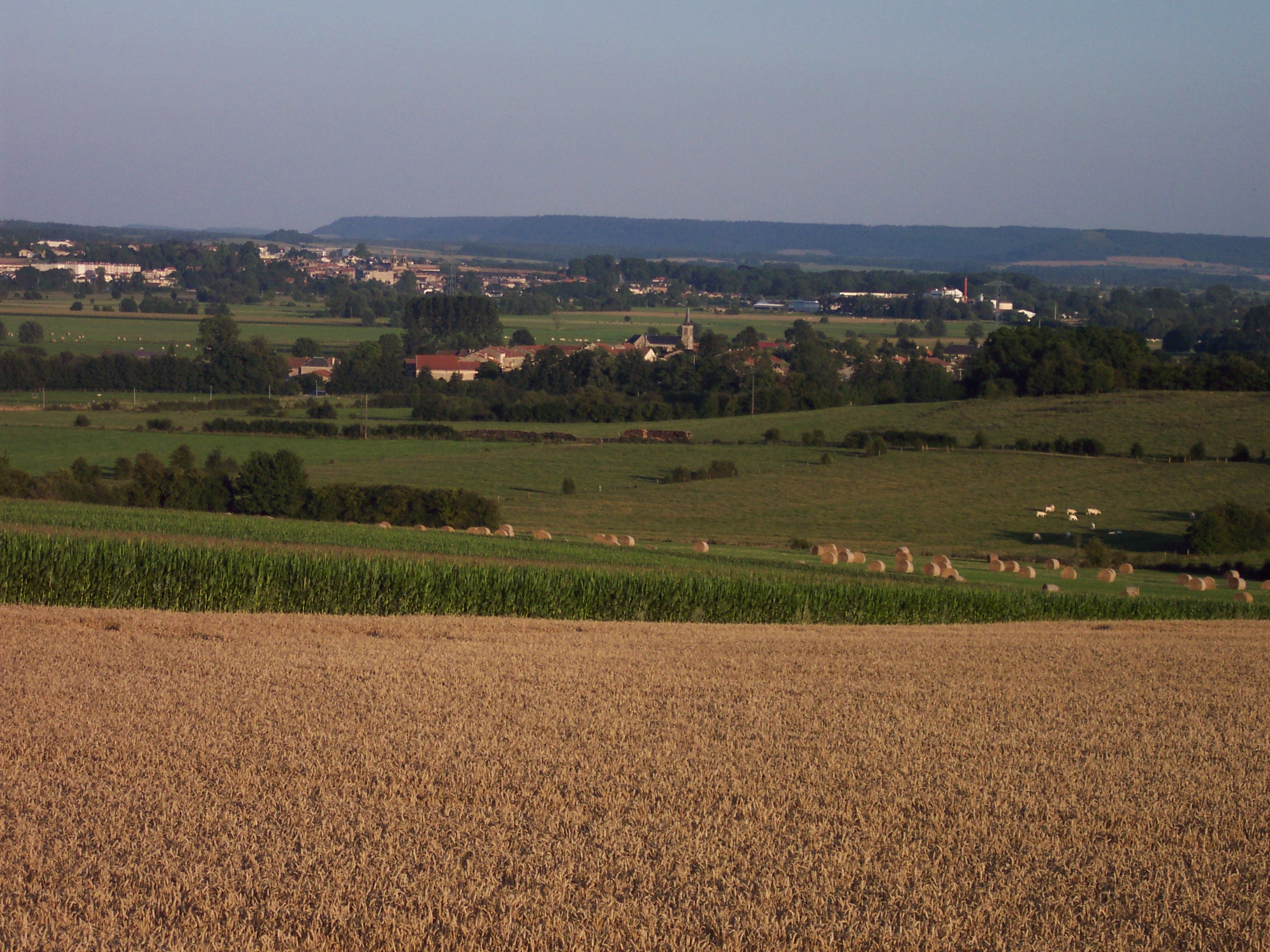 View on Cesse, village in Meuse Valley, in département de la Meuse, Lorraine, France